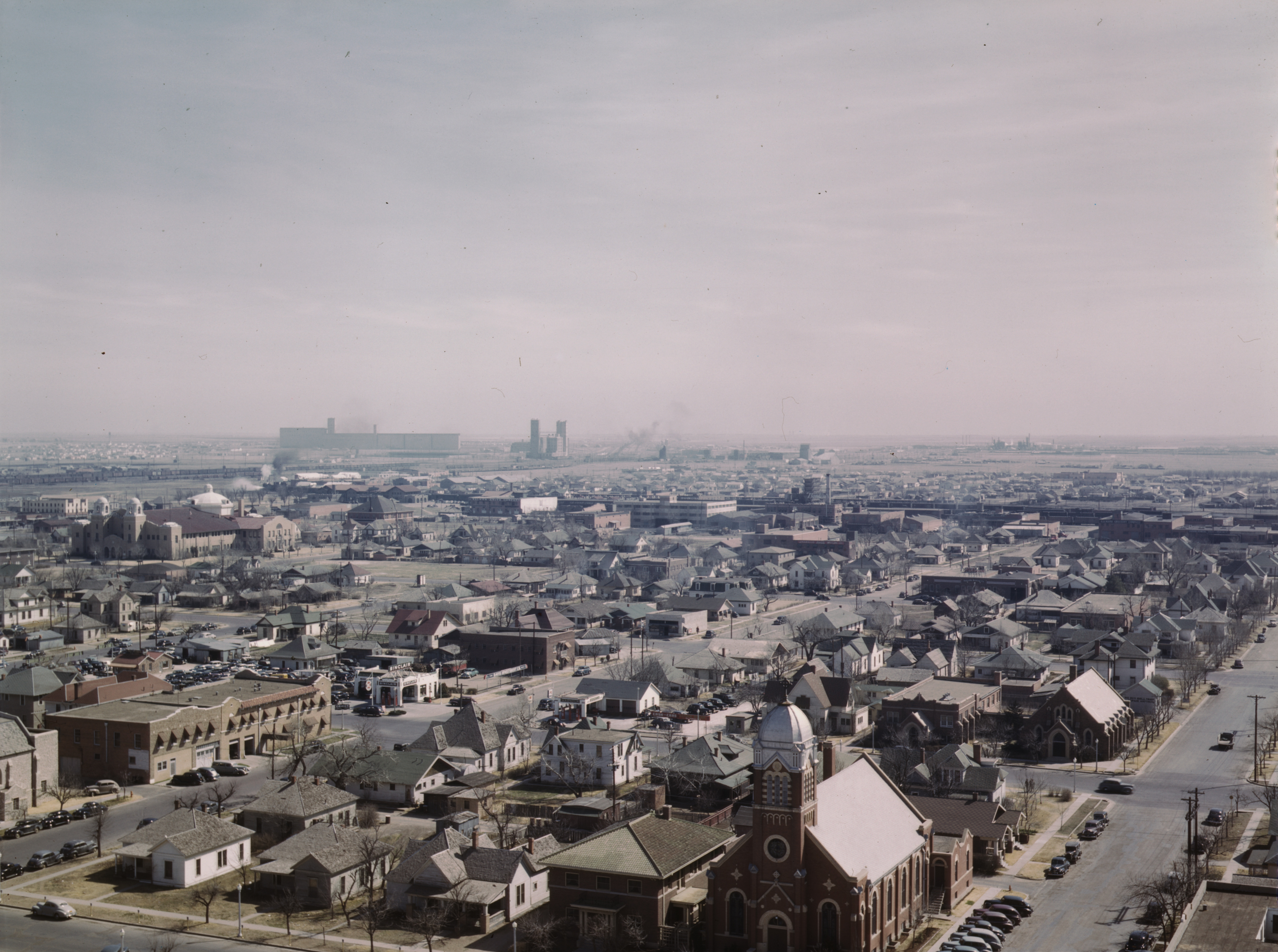 Amarillo, Texas.